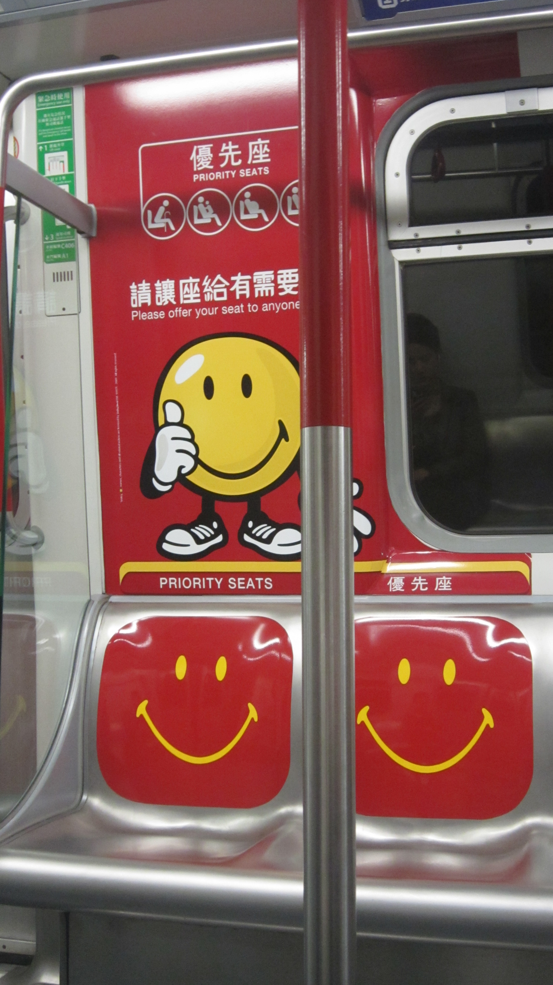 MTR Priority Seats